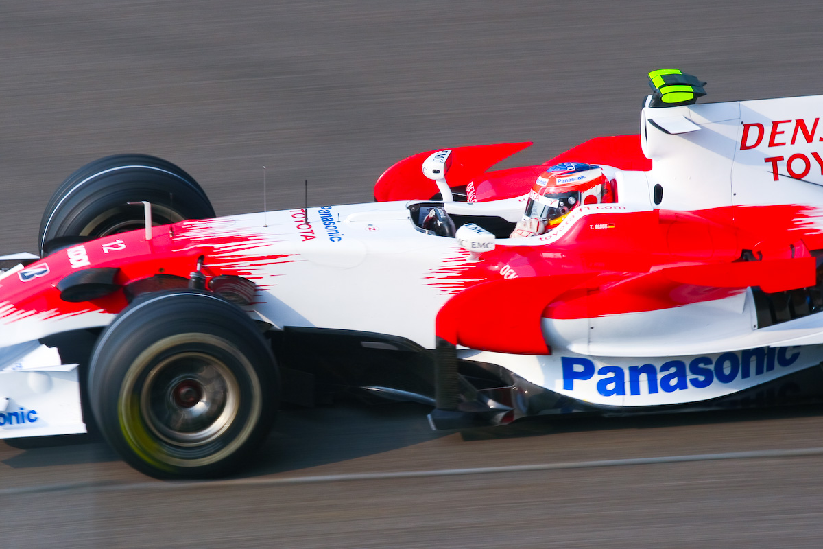 Timo Glock driving for Toyota F1 at the 2008 Chinese Grand Prix.